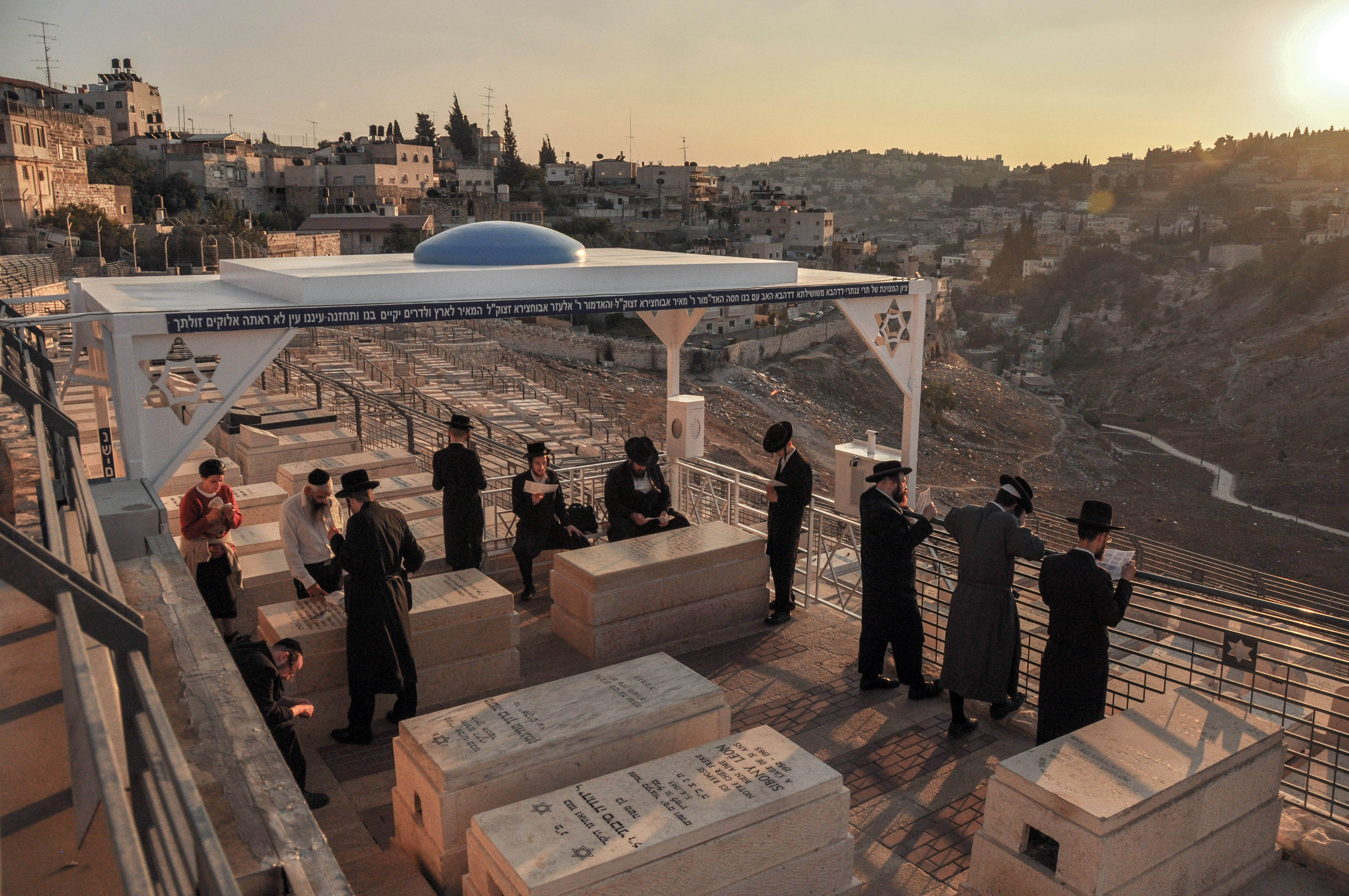 The tomb of Baba Meir on the Mount of Olives in Jerusalem.